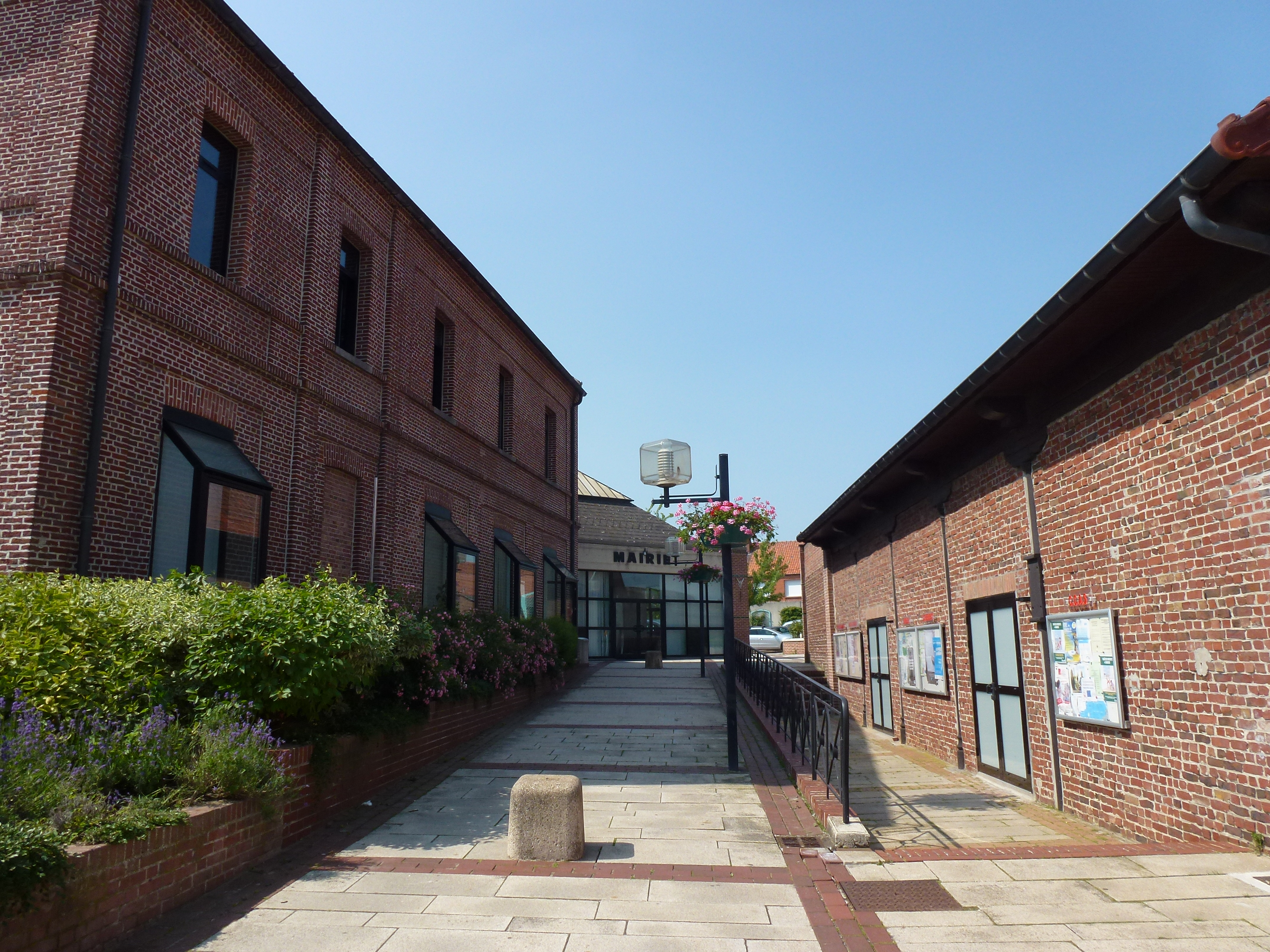 Raimbeaucourt (Nord, Fr) mairie